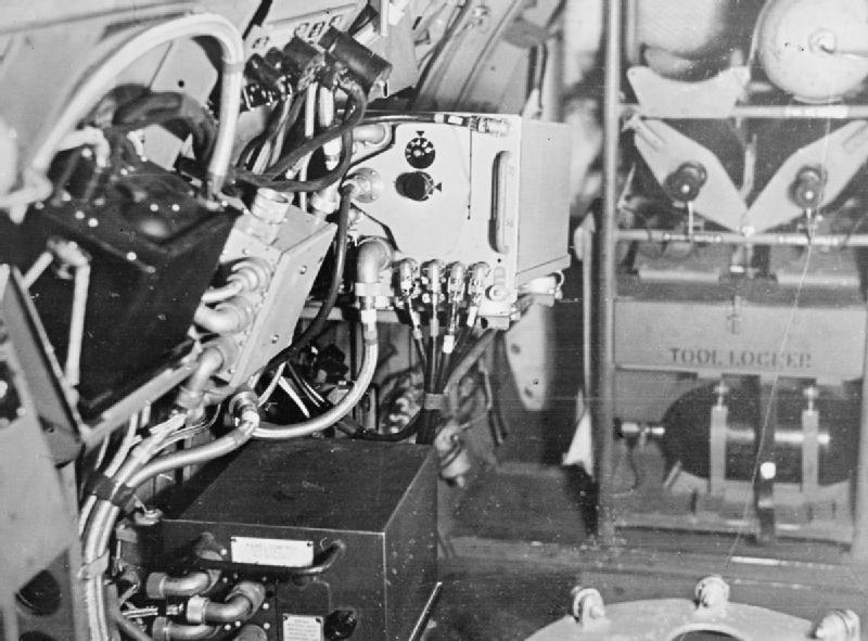 Royal Air Force Radar, 1939-1945. Air interception radar: the installation of the AI Mark VIIIA receiver unit on the starboard side of the radar operator's position in a Bristol Beaufighter night fighter.